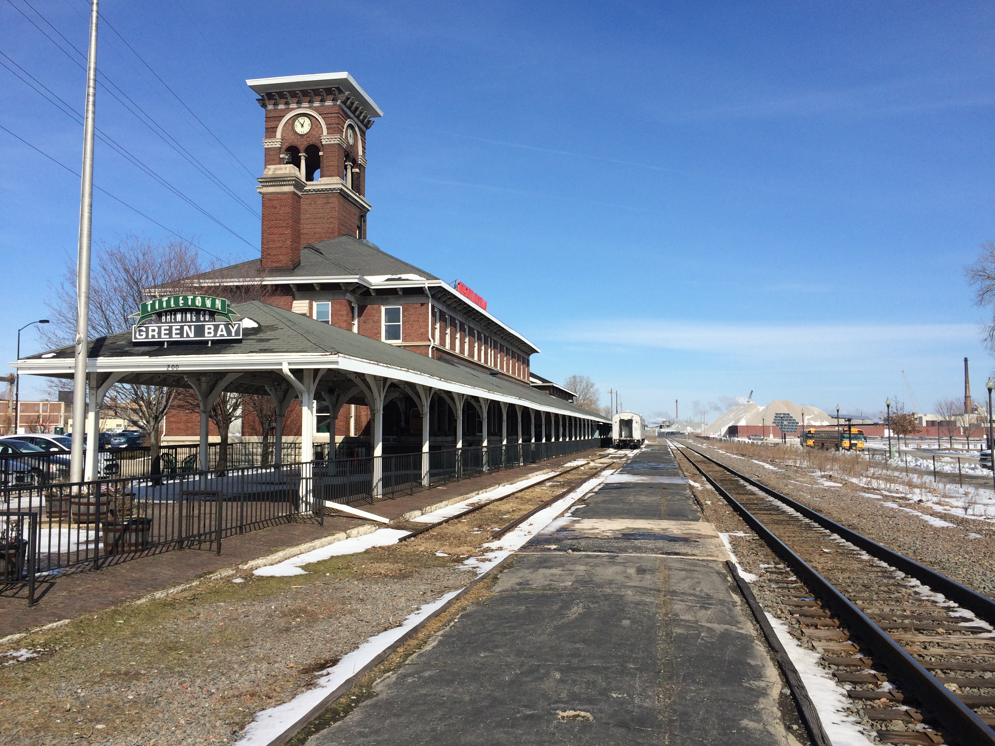 Chicago and North Western Railway Passenger Depot (Green Bay) in Green Bay, Wisconsin